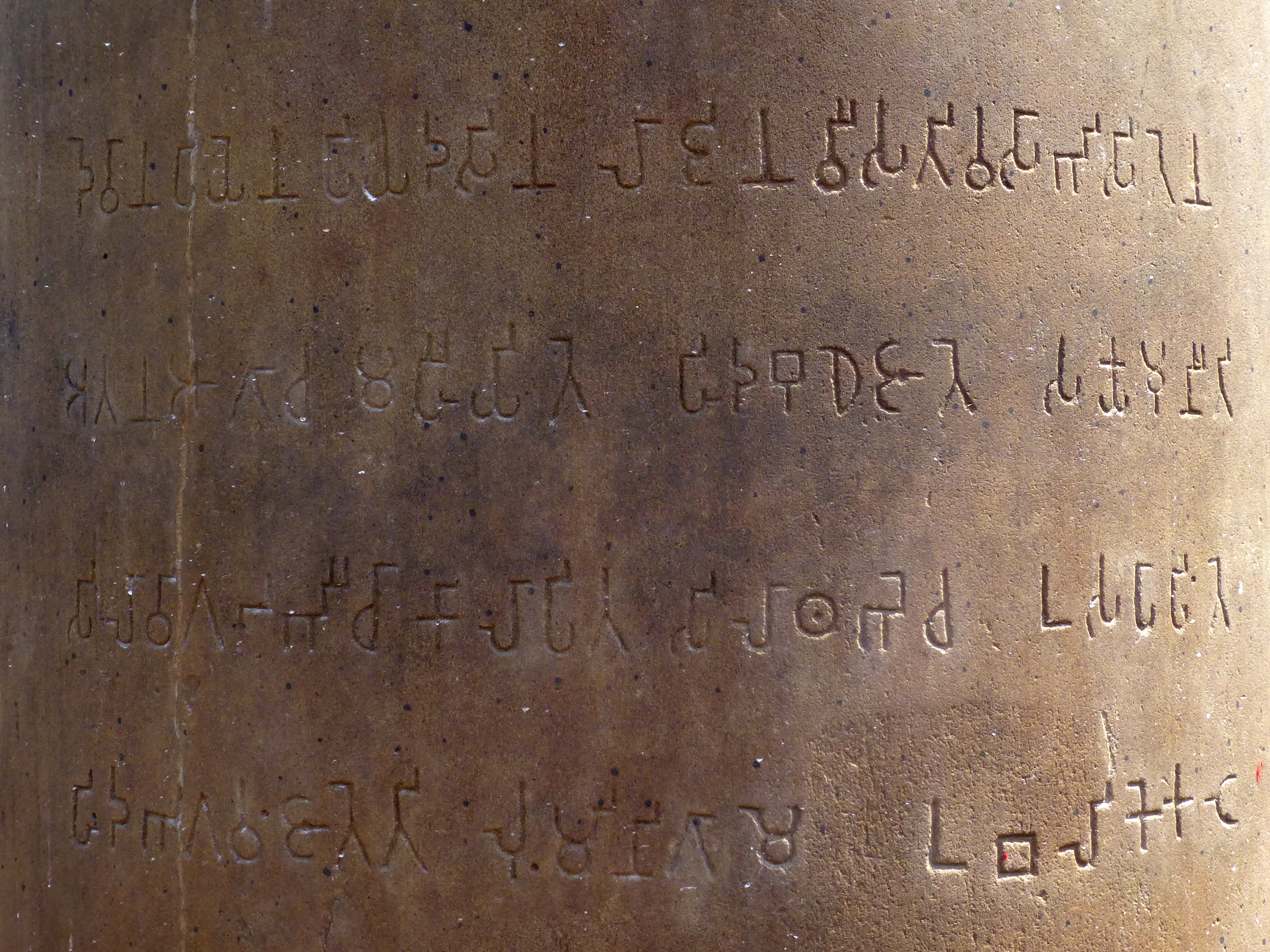 08 Pillar Edict in Brahmi Script, Lumbini. Photograph from Lumbini in Nepal taken by Anandajoti. TEXT: "When King Devandmpriya Priyadarsin had been anointed twenty years, he came himself and worshipped (this spot) because the Buddha Shakyamuni was born here. (He) both caused to be made a stone bearing a horse (?) and caused a stone pillar to be set up, (in order to show) that the Blessed One was born here. (He) made the village of Lummini free of taxes, and paying (only) an eighth share (of the produce).", translated in Hultzsch, E. (1925). Inscriptions of Asoka pp. 164-165.